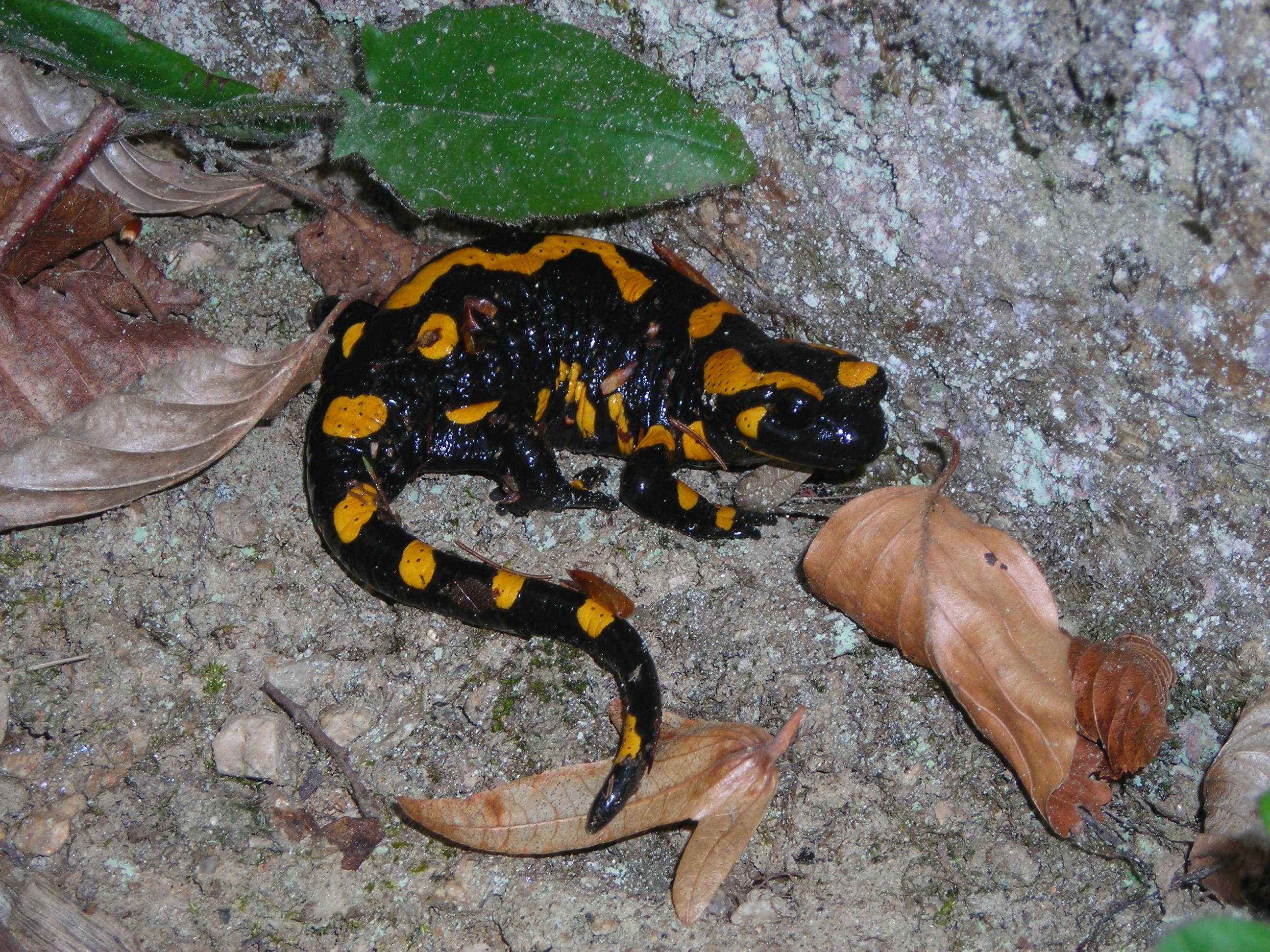 Feuersalamander